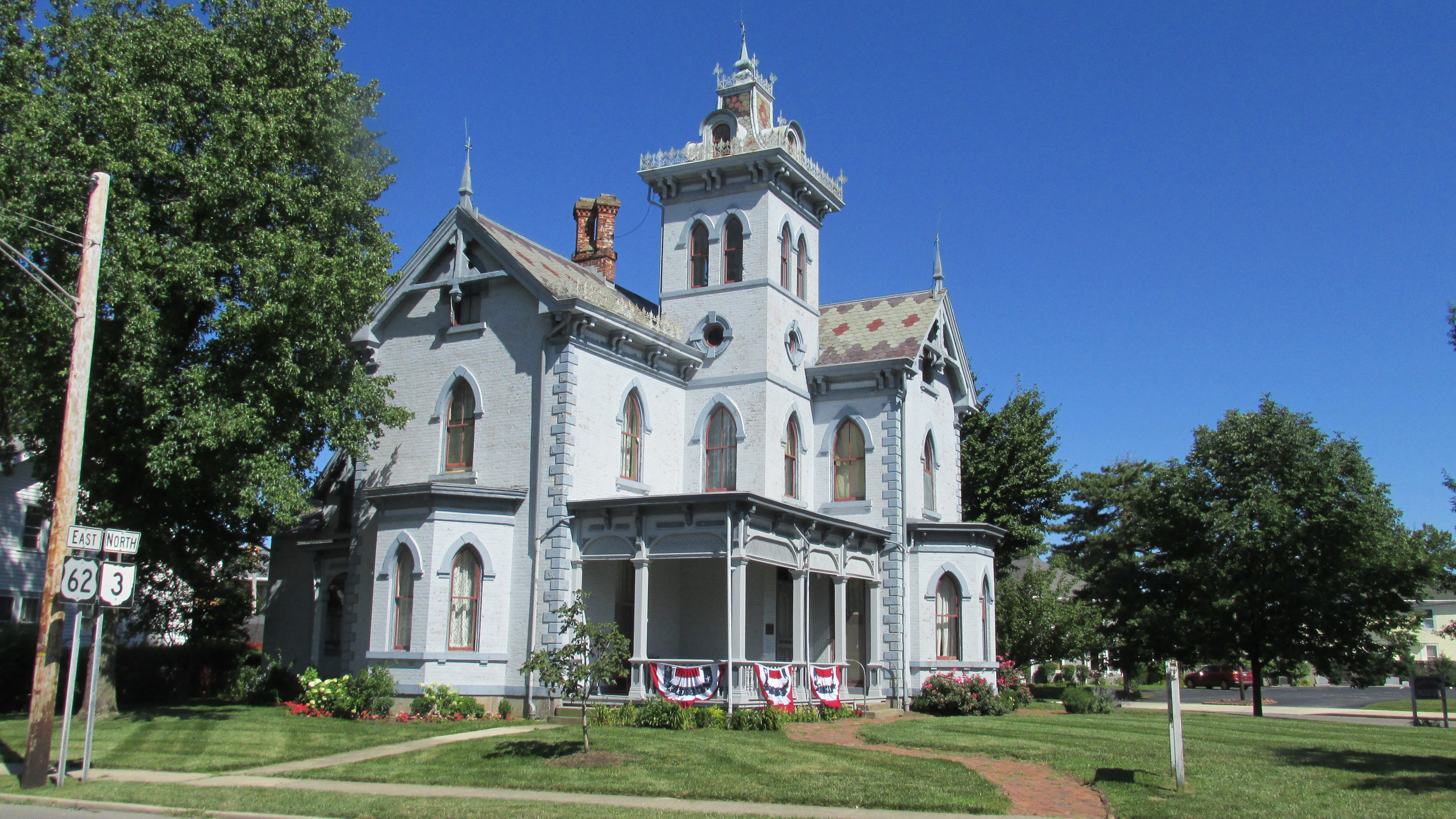 Morris Sharp House (Fayette County Museum) located in Washington Court House, Ohio.